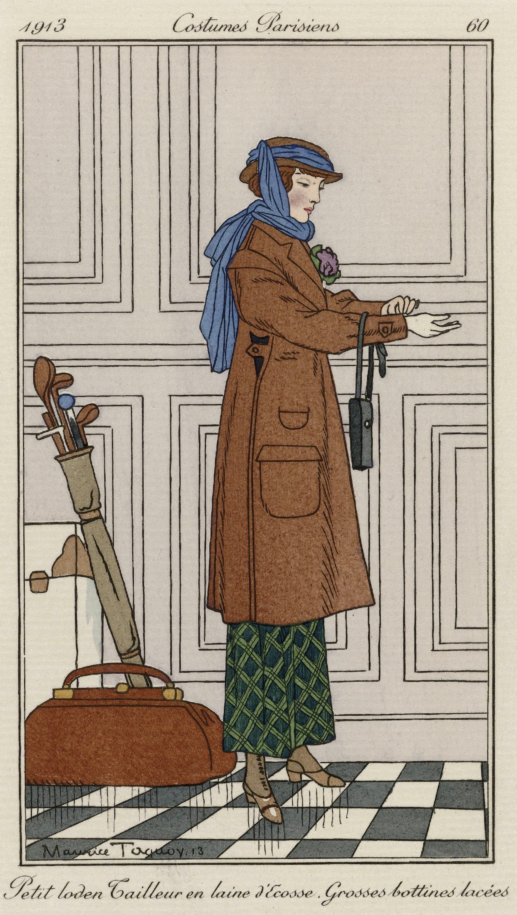 Costumes Parisiens Fashion illustration No.51 from Journal des dames et des modes, 1913